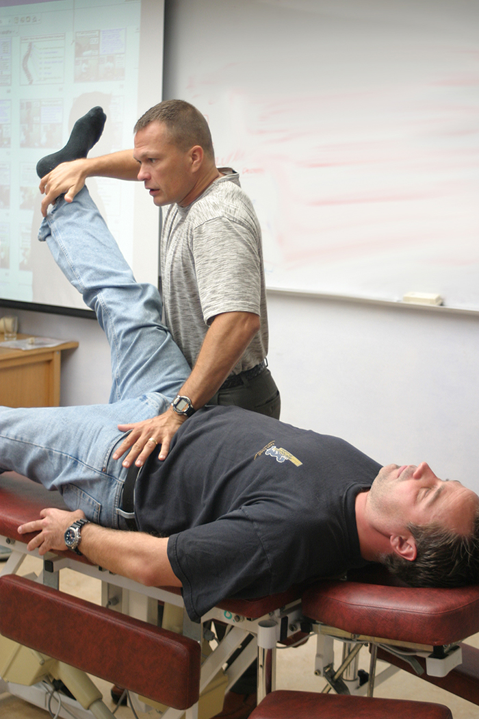 MMT Manual Muscle Testing of Psoas major muscle, within Physiotherapy and Applied Kinesiology.